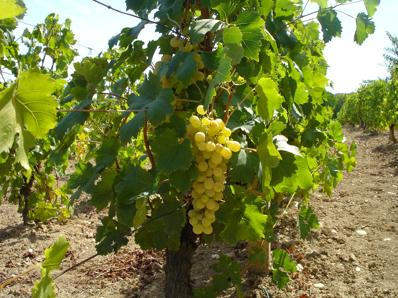 White grapes on a vineyard near Usje, Macedonia